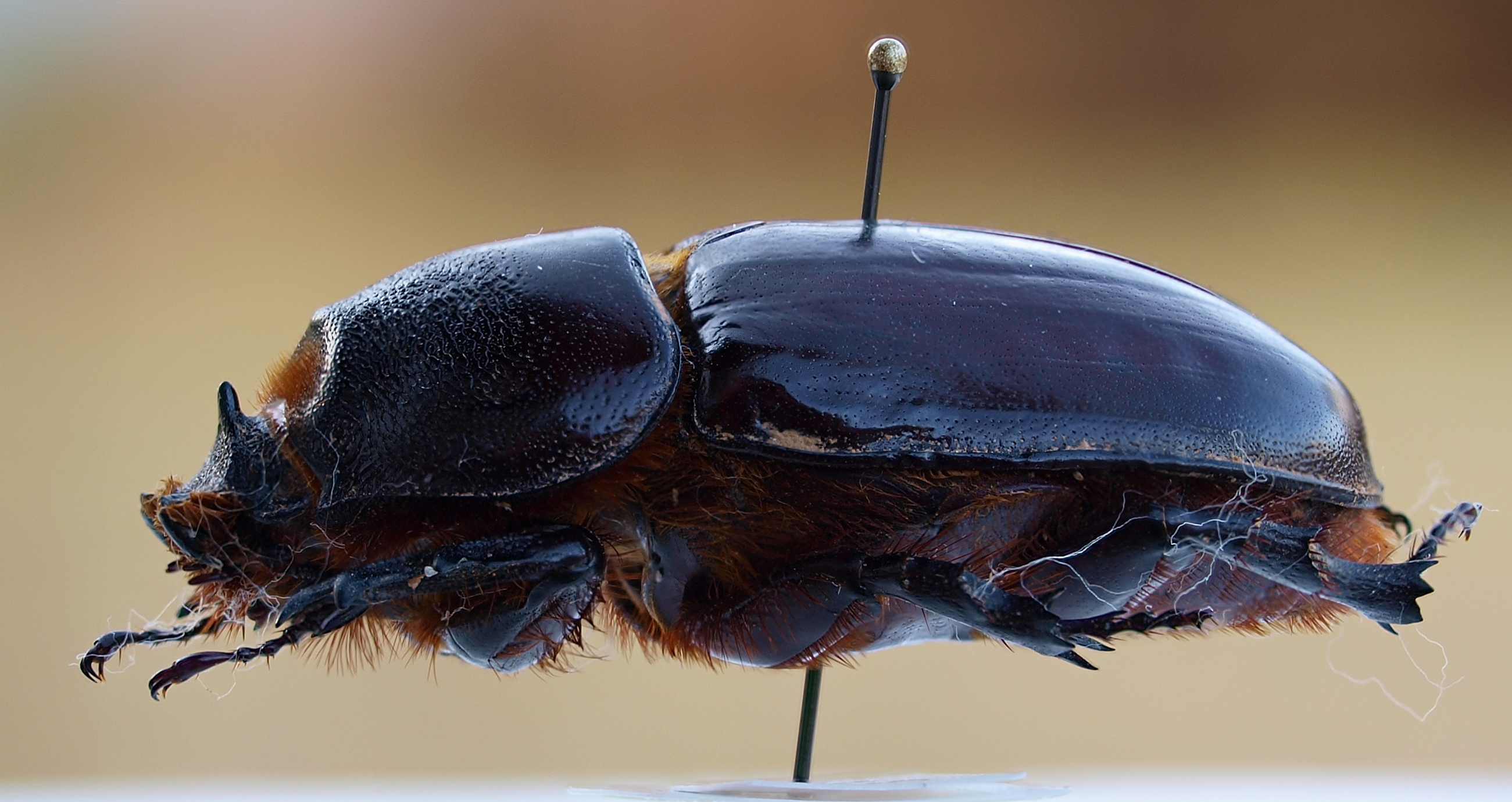 Oryctes boas, female